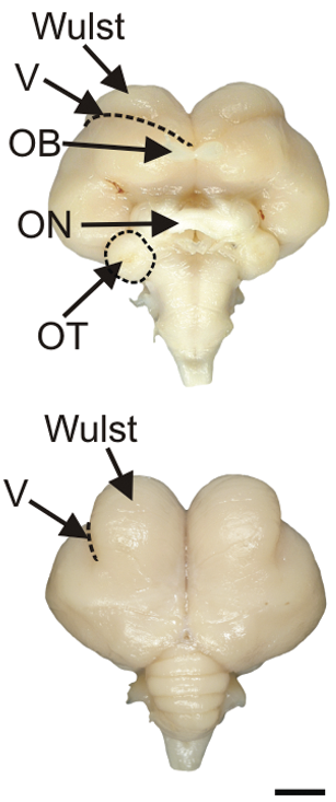 OT: optic tectum; ON: optic nerve ; OB; olfactory bulb; V: vallecula. See File:Visual processing areas of the brains of four species of birds.png